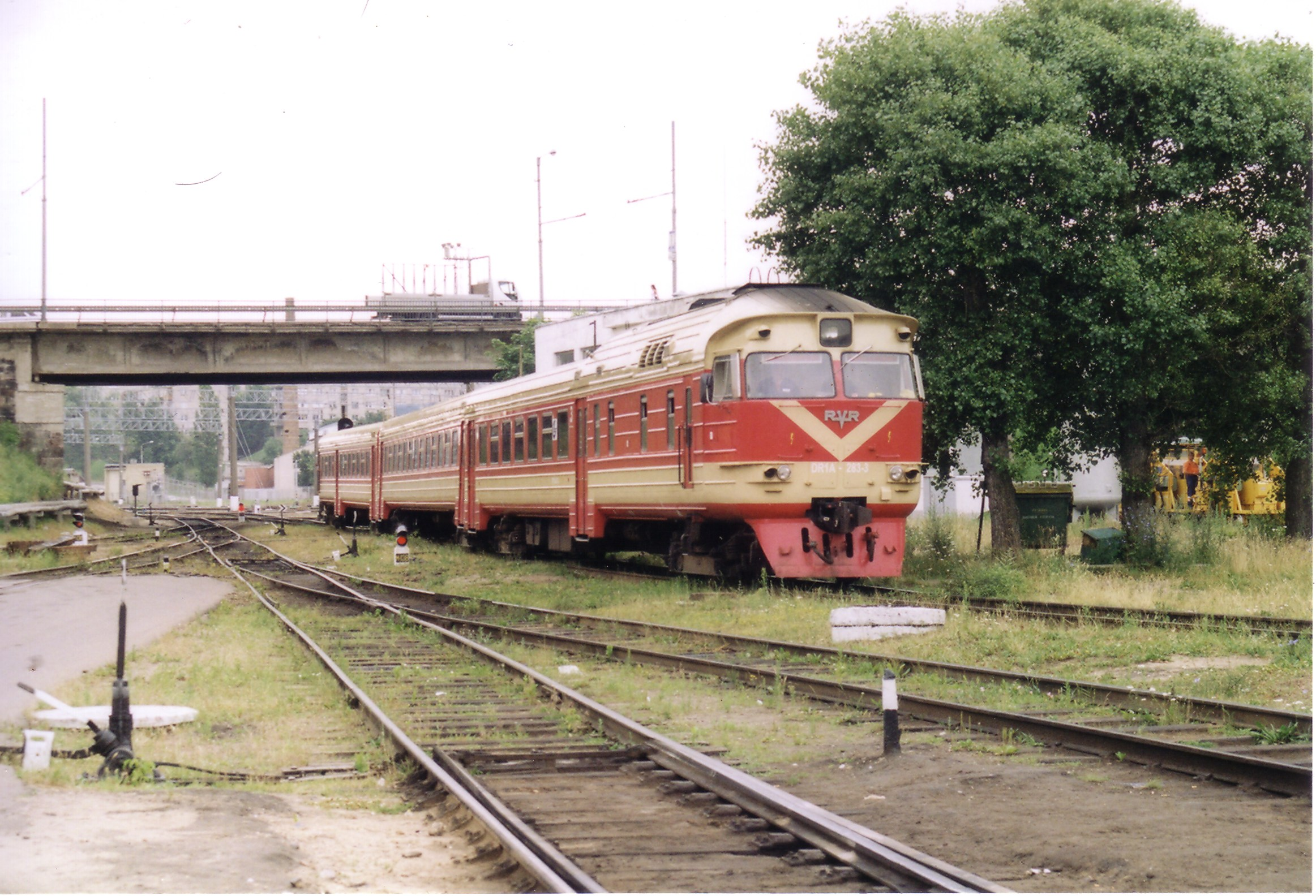 DMU in Vilnius depot